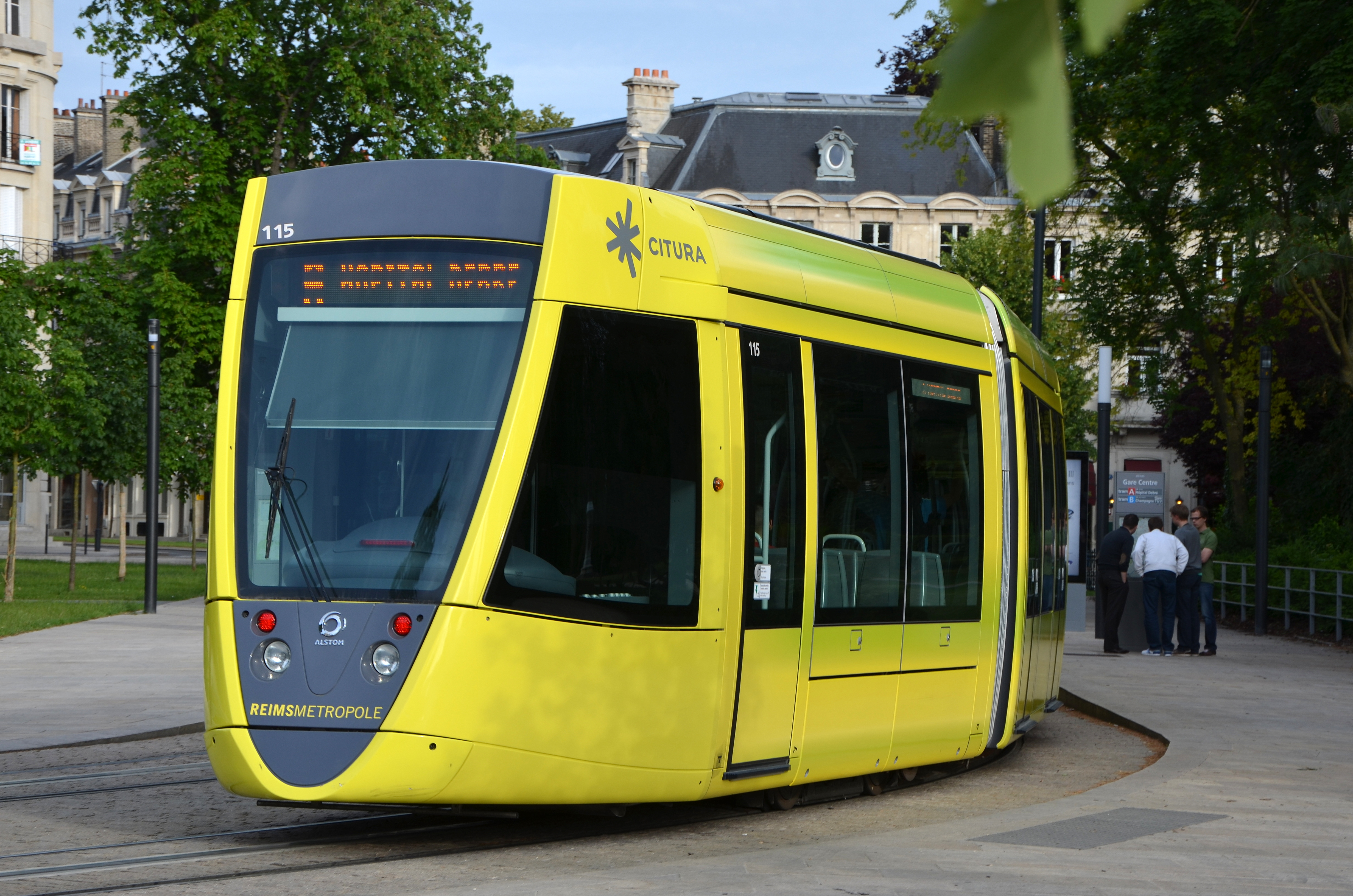 tramway in Reims near the railways station, Marne, France. The tram is using for aesthetic reasons a ground-level power supply